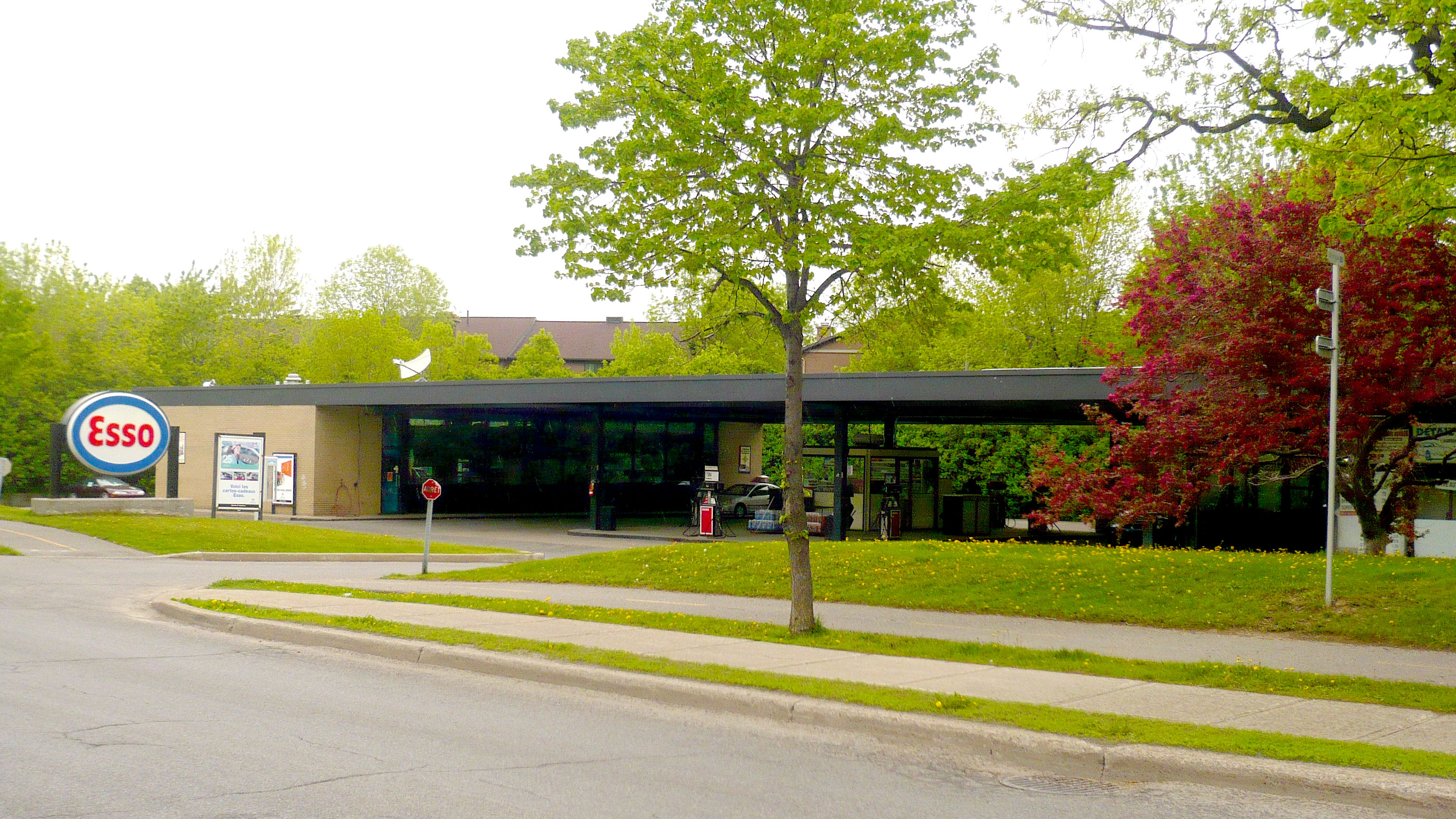 Mies van der Rohe gas station, still in operation in 2007